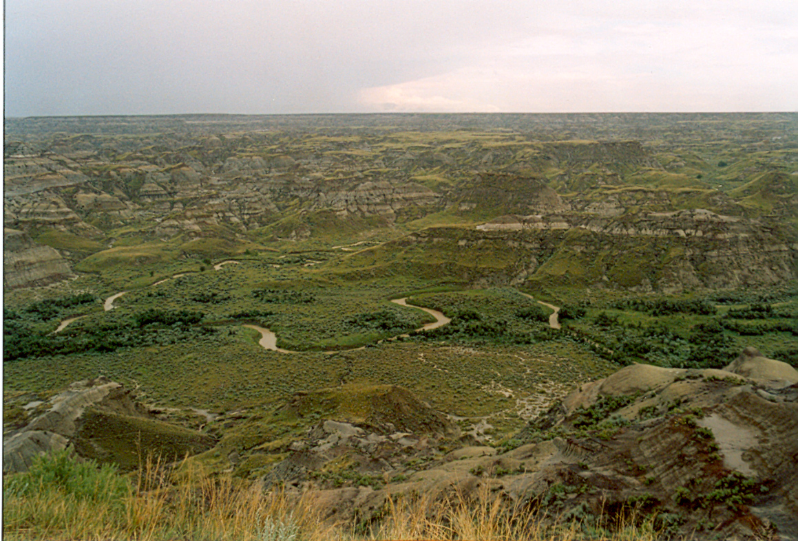 The scenery